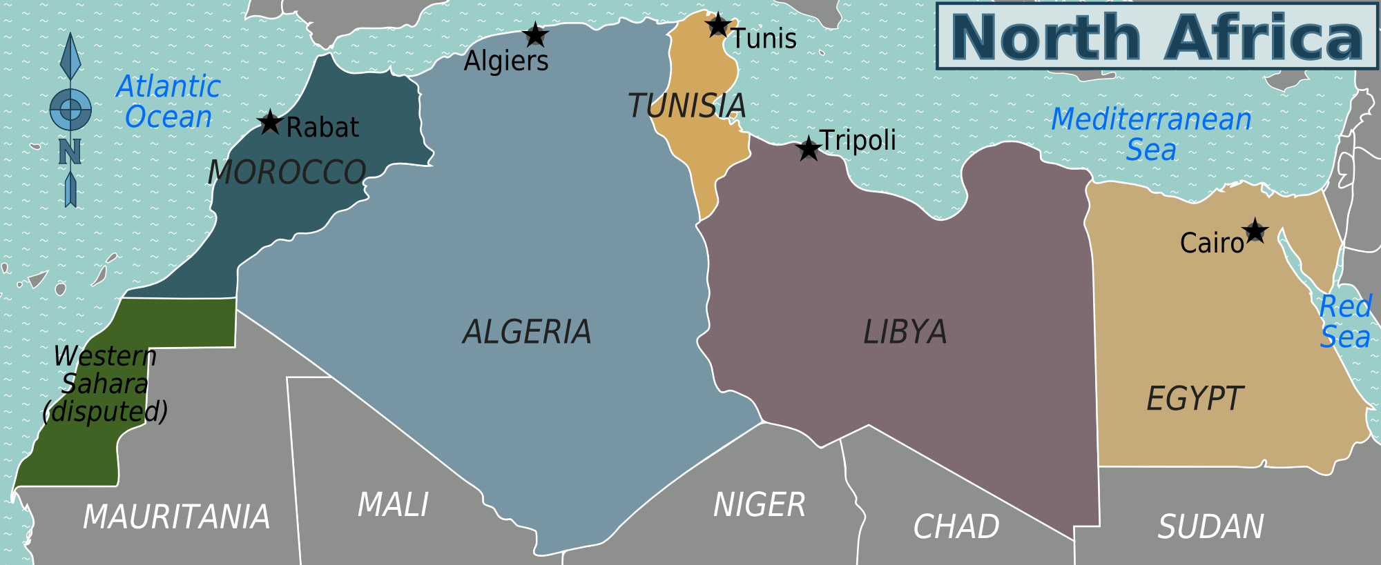 North Africa regions map for use on Wikivoyage, English version